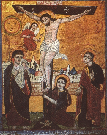 Coptic_Crucifixion_Icon